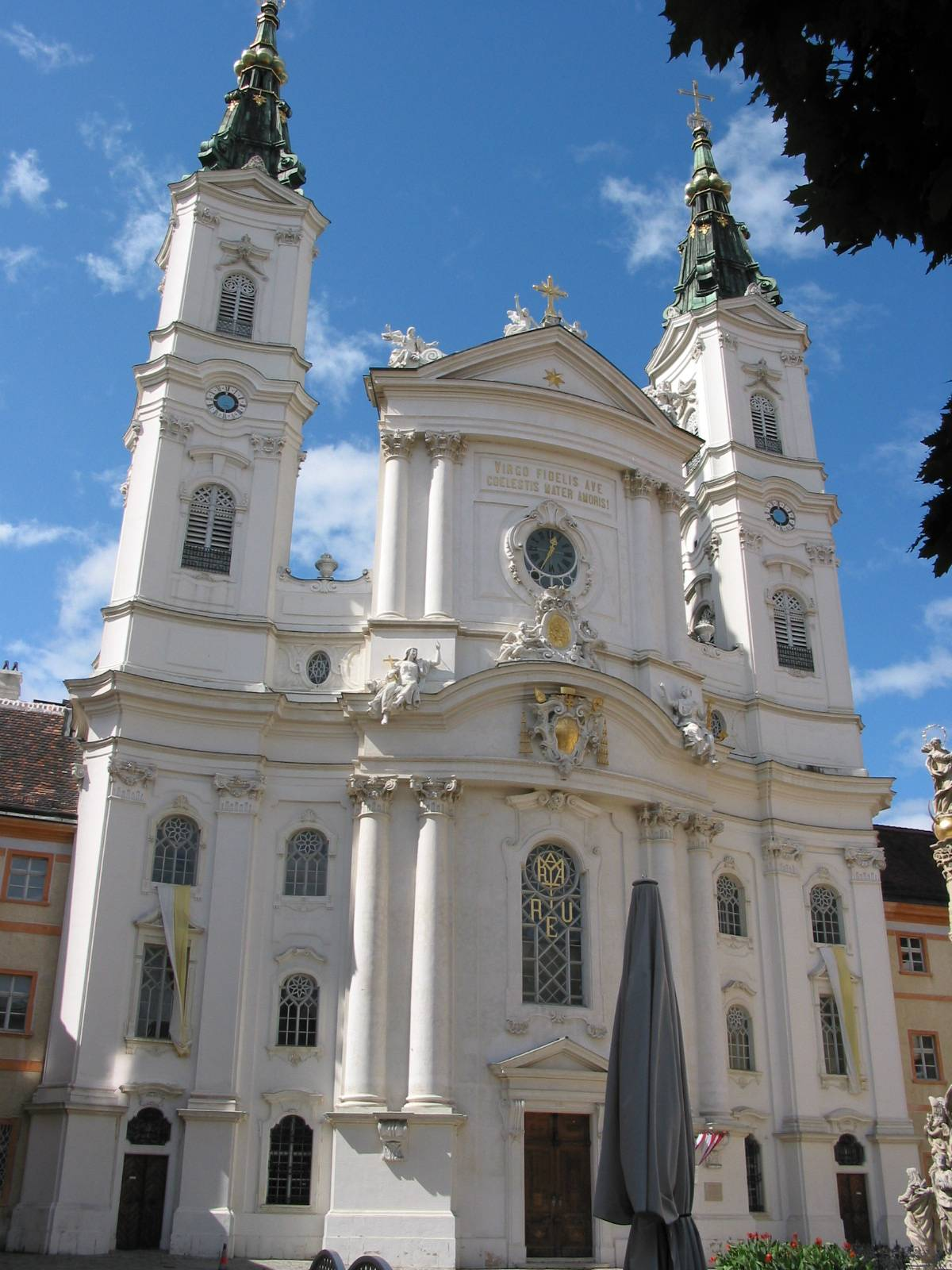 Church of the piarists in Vienna